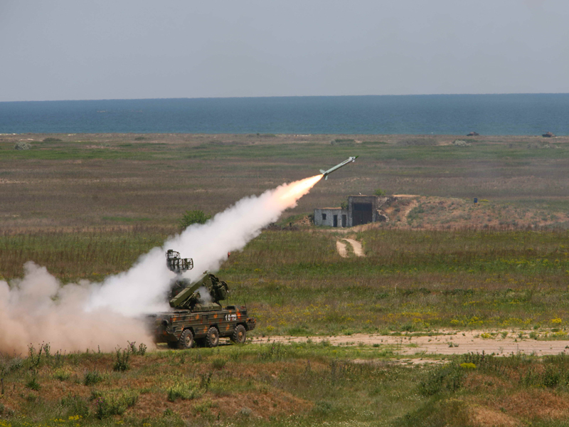 A Romanian 9K33 OSA (NATO designation: SA-8 Gecko) surface-to-air missile system during a military exercise at Capu Midia firing range.